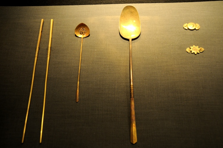 A pair of gold chopsticks and two gold spoons found in the tomb of Prince Chuang of Liang (梁莊王, 1411-1441). Ming dynasty.